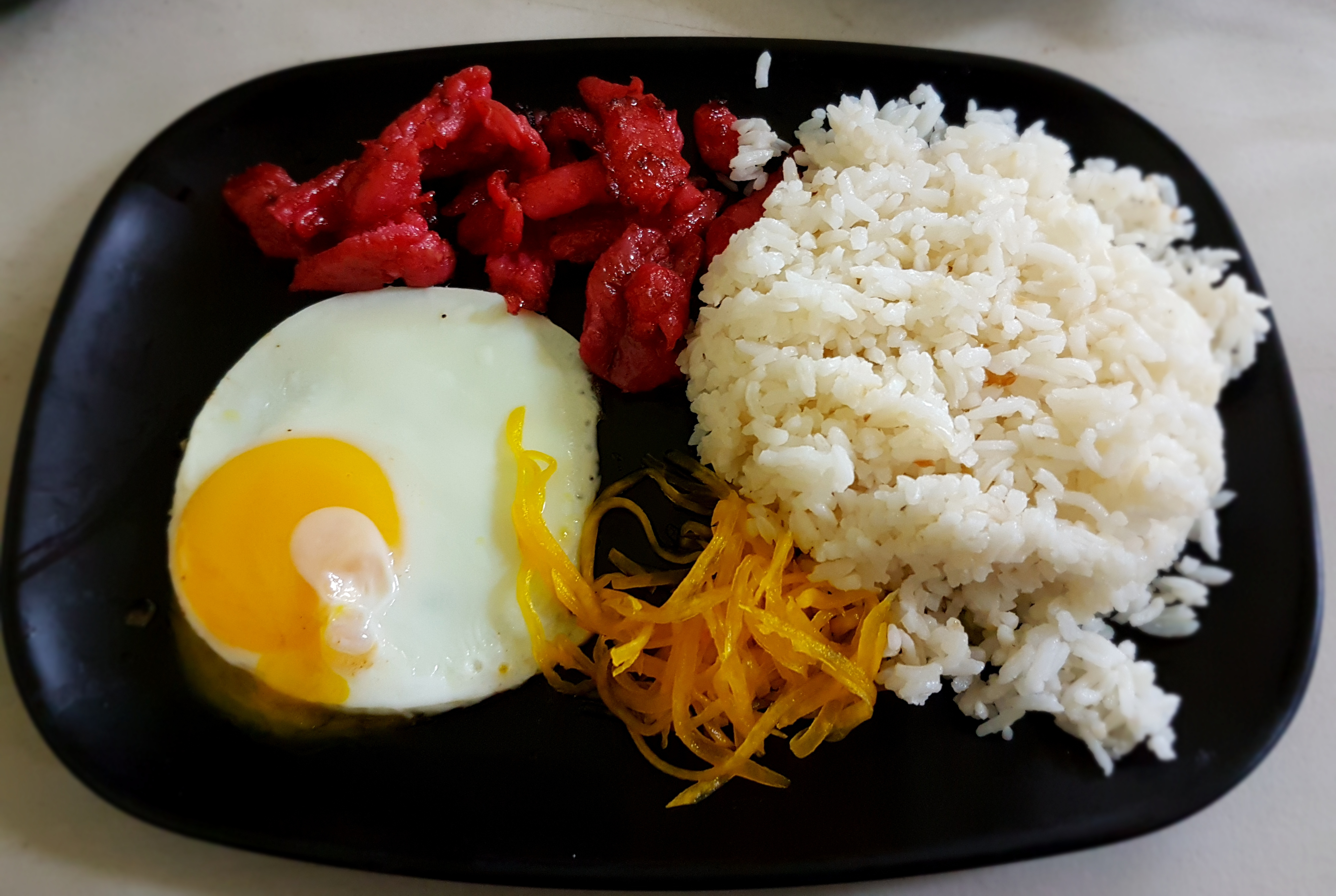 Pork tocino with eggs, rice, and atchara (pickled papaya). A typical Filipino breakfast.